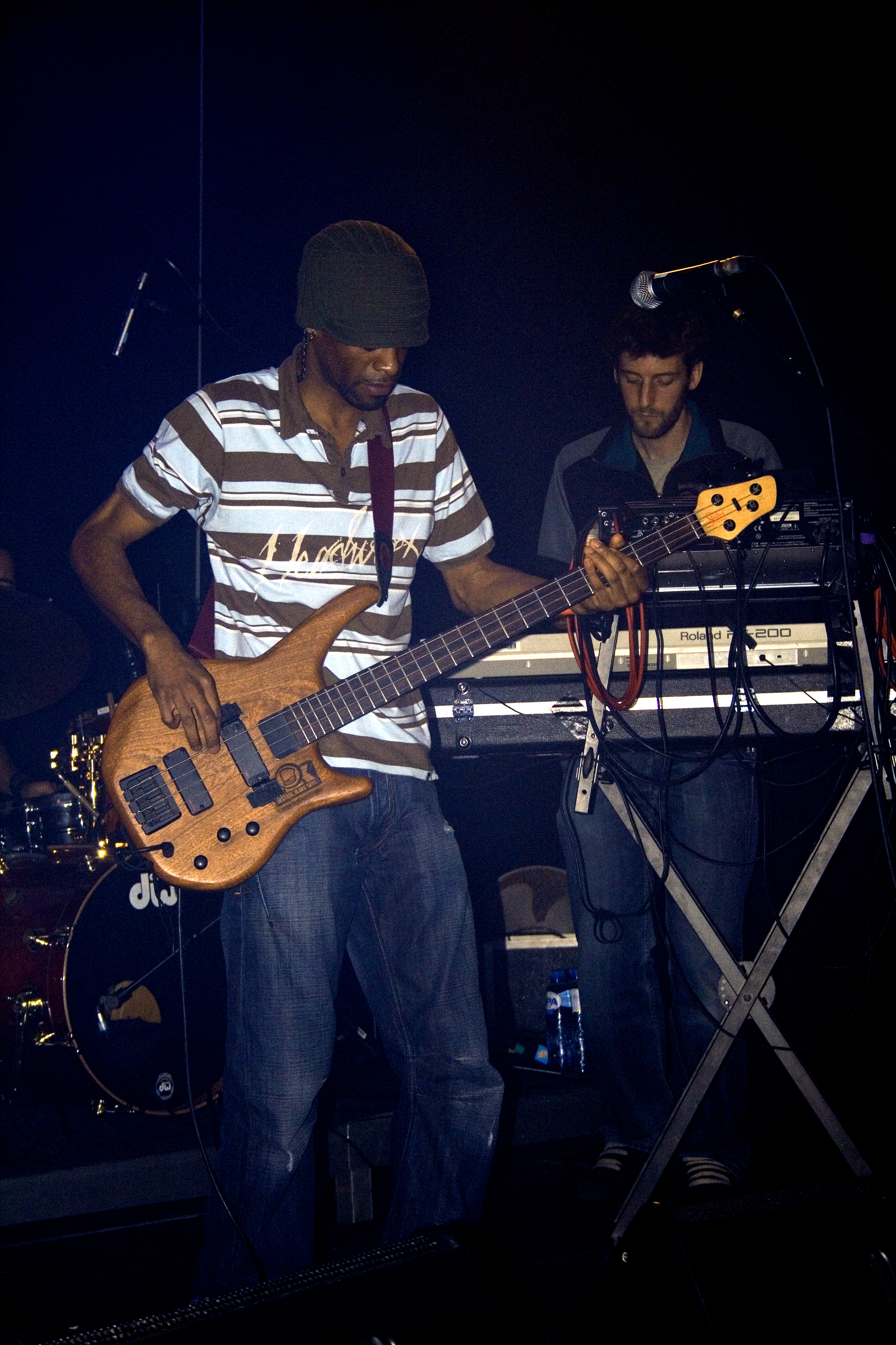 Justin Percival and Rod Buchanan-Dunlop performing live with Stateless at Jeugdhuis Nijdrop